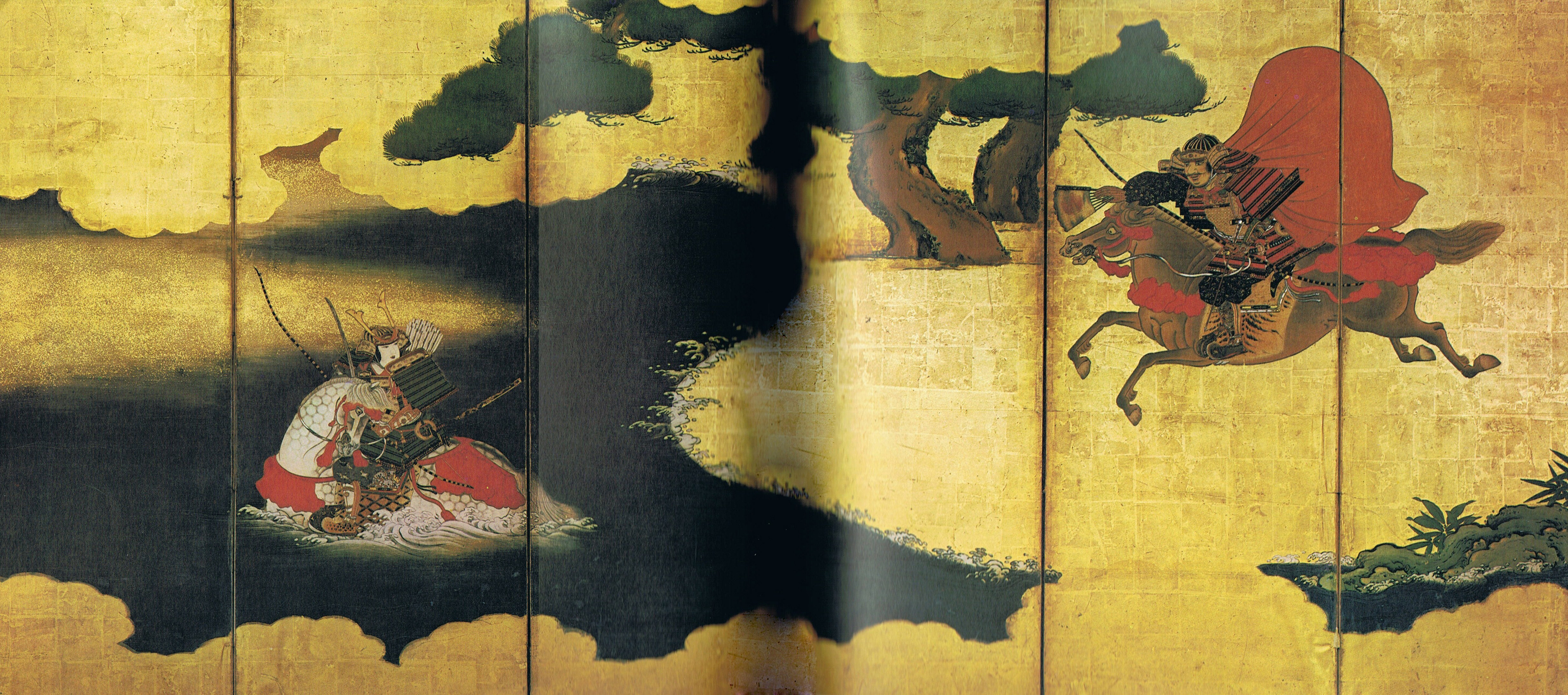 Duel between Taira no Atsumori (left) and Kumagai Naozane (screen painting)